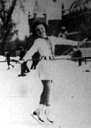 Saáry Éva Hungarian skater in 1939